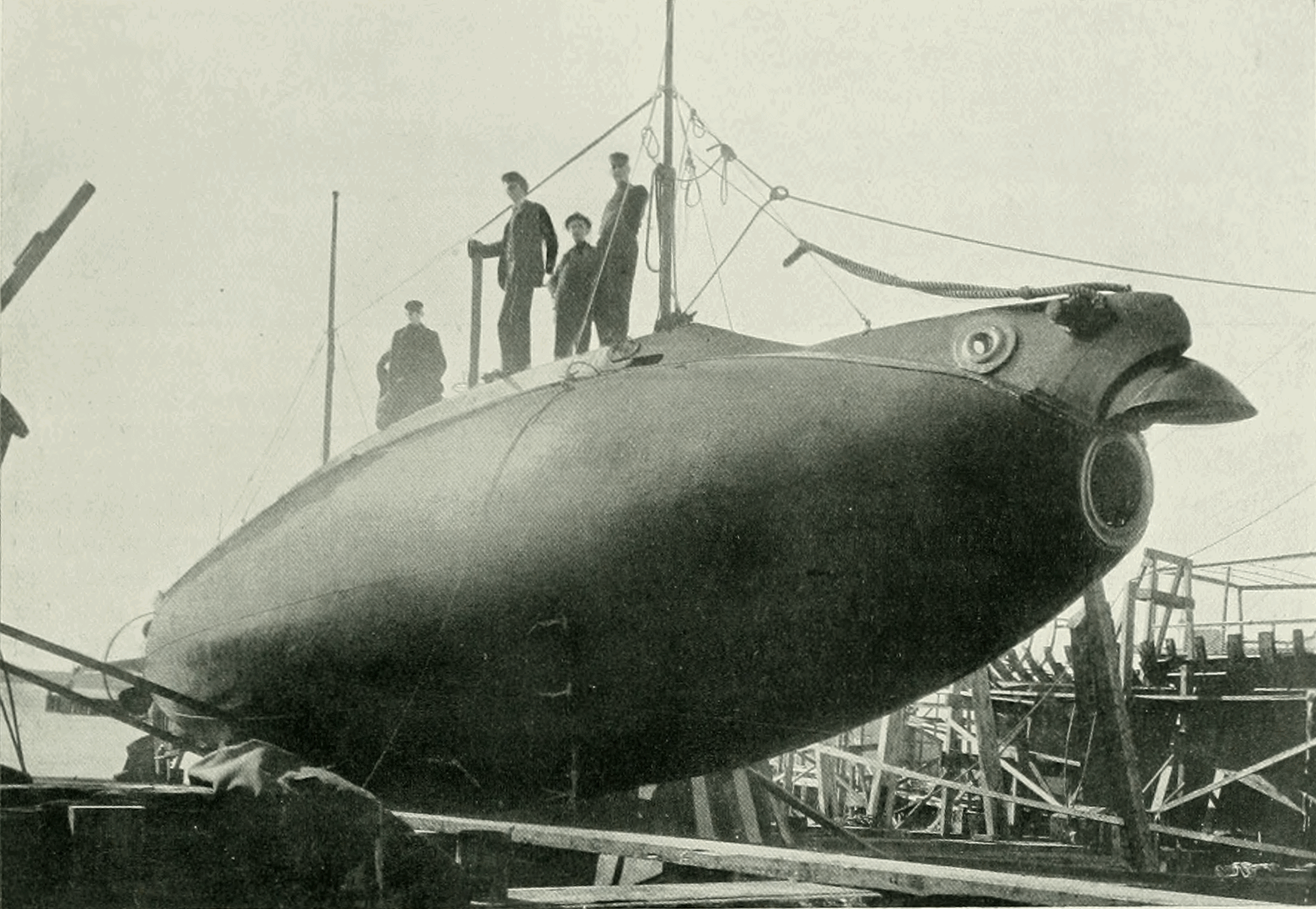 Photo of the submarine Fulton, ready for launch. The vessel later became the Russian Som. Photo in Page's Magazine No. 2 from 1902. That issue had an article about the developement of submarines.